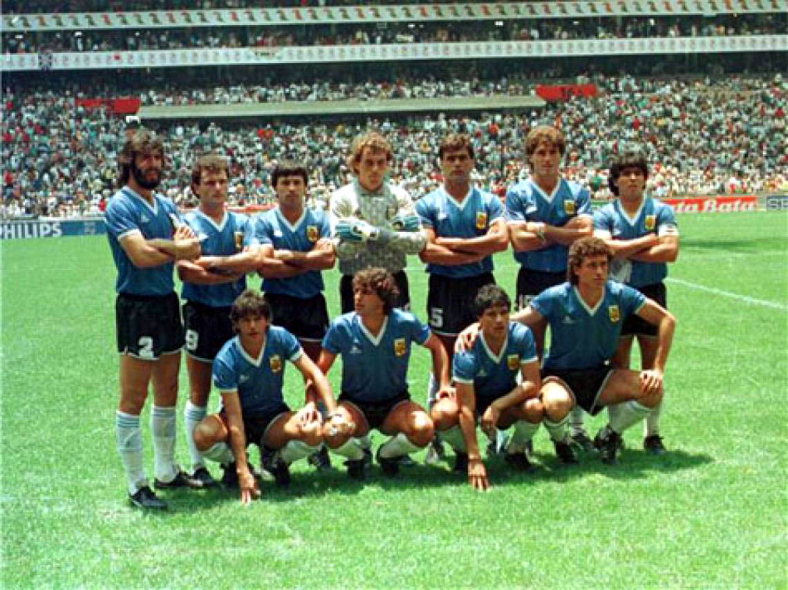 The Argentina squad that played England at the WC in Mexico.